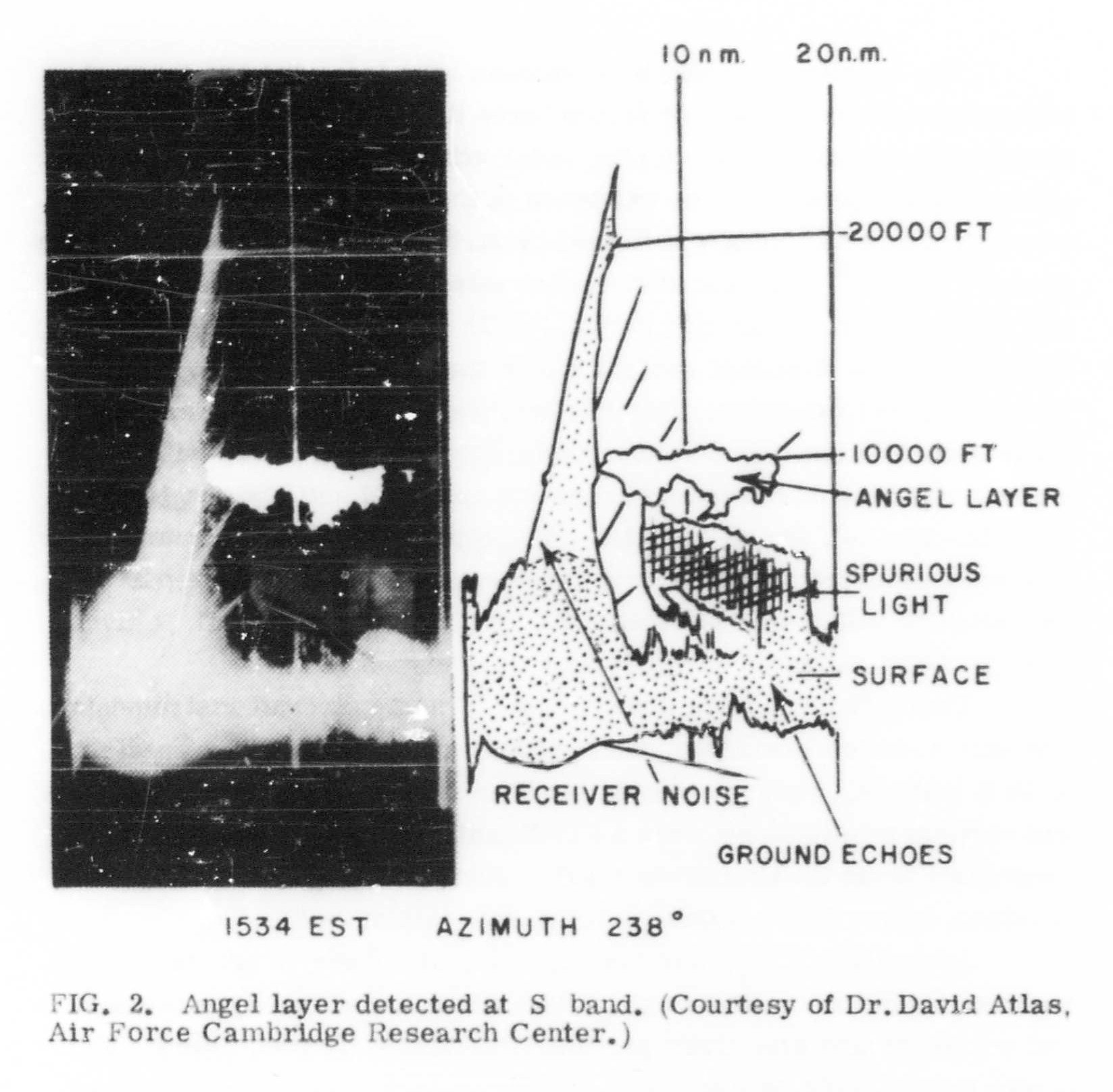 S-band "radar angel" seen in a 1959 Air Force report.